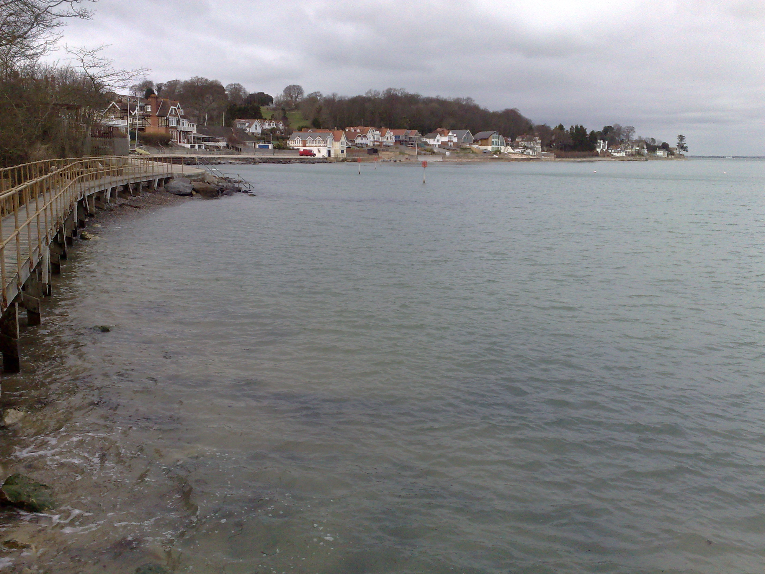 Seagrove Bay from Horestone Point.